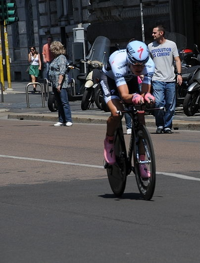 Australian cyclist Richie Porte in the final time trial of the 2011 Giro d'Italia, wearing pink shoes and gloves to celebrate teammate Alberto Contador's overall victory